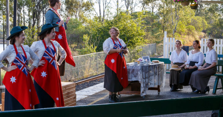 Flowers theatre company perform the Train Tea Society at QPSR